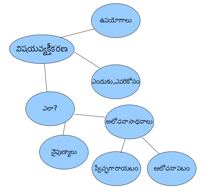 Mindmap illustraion in Telugu ఆలోచనా పటం